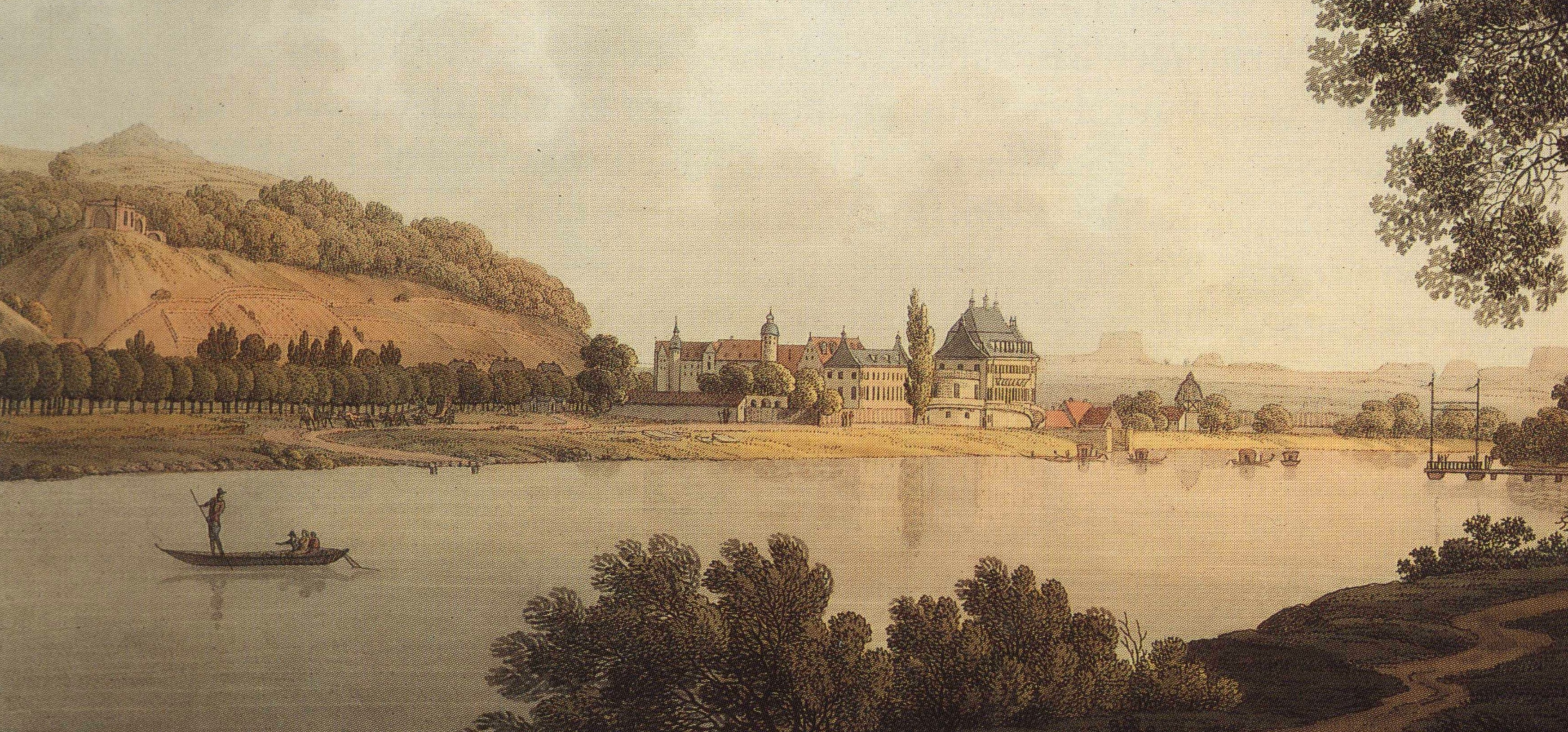 View of Pillnitz Castle, around 1800